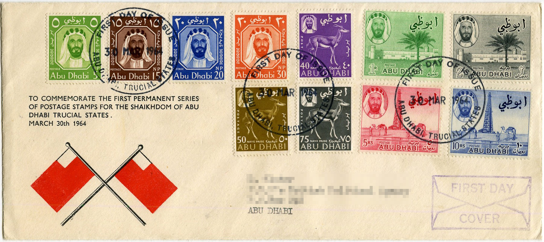 First day cover with first definitive postage stamps series of Abu Dhabi, sheikh Shakhbut bin Sultan Al Nahyan, March, 30, 1964